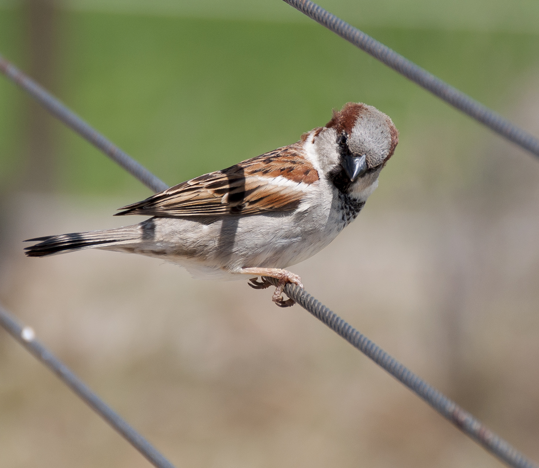 A male House Sparrow in El Saler, Valencia, Spain